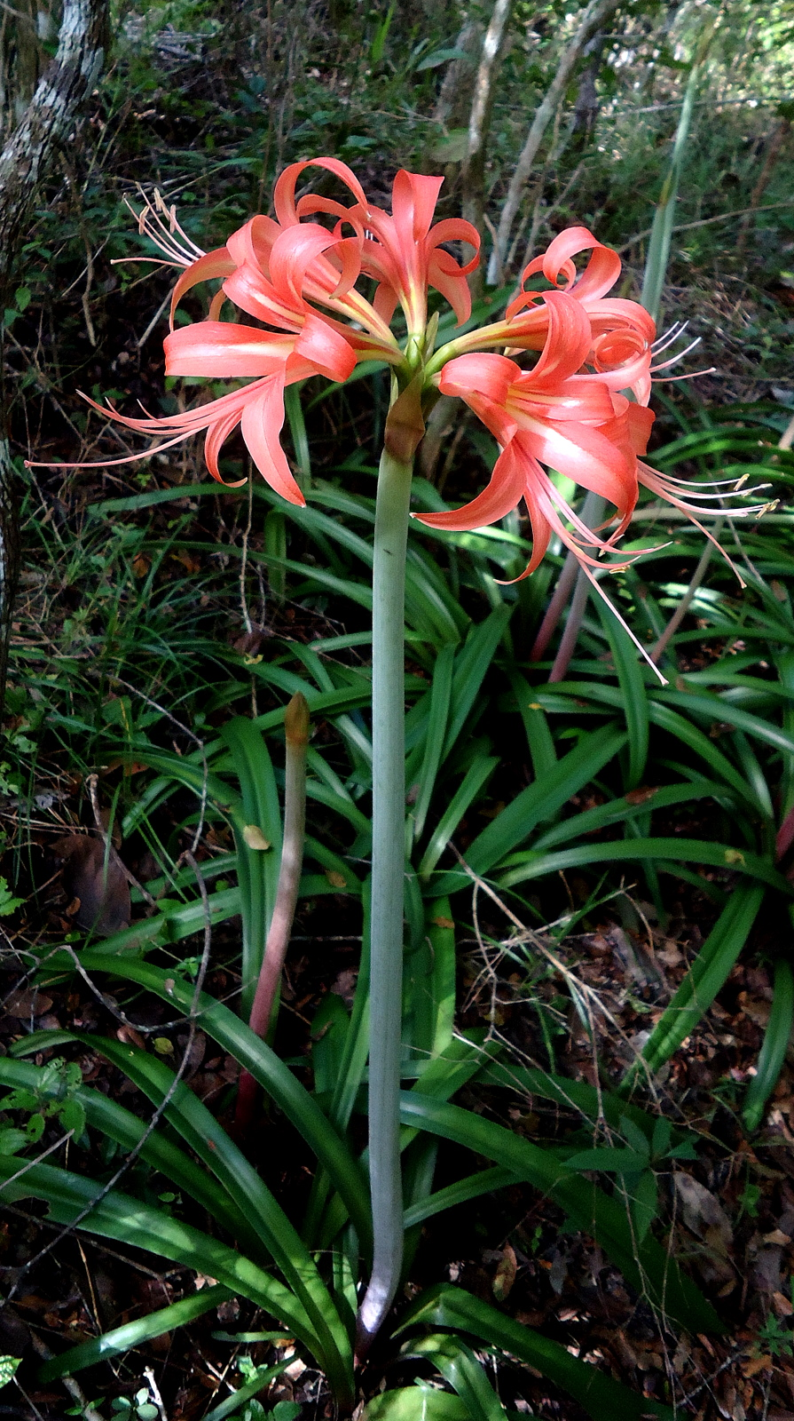 Hippeastrum stylosum Herb.